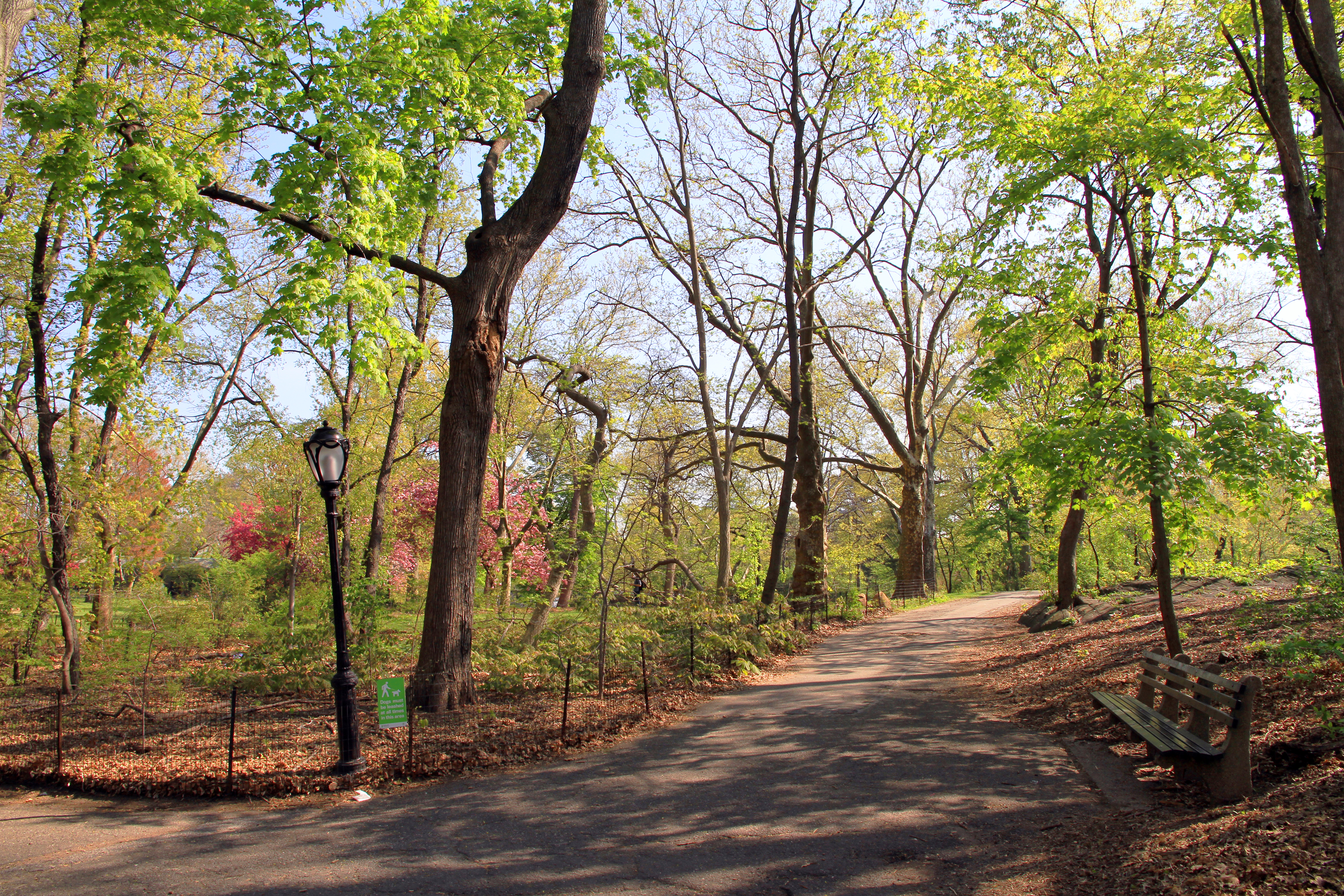 The Ramble